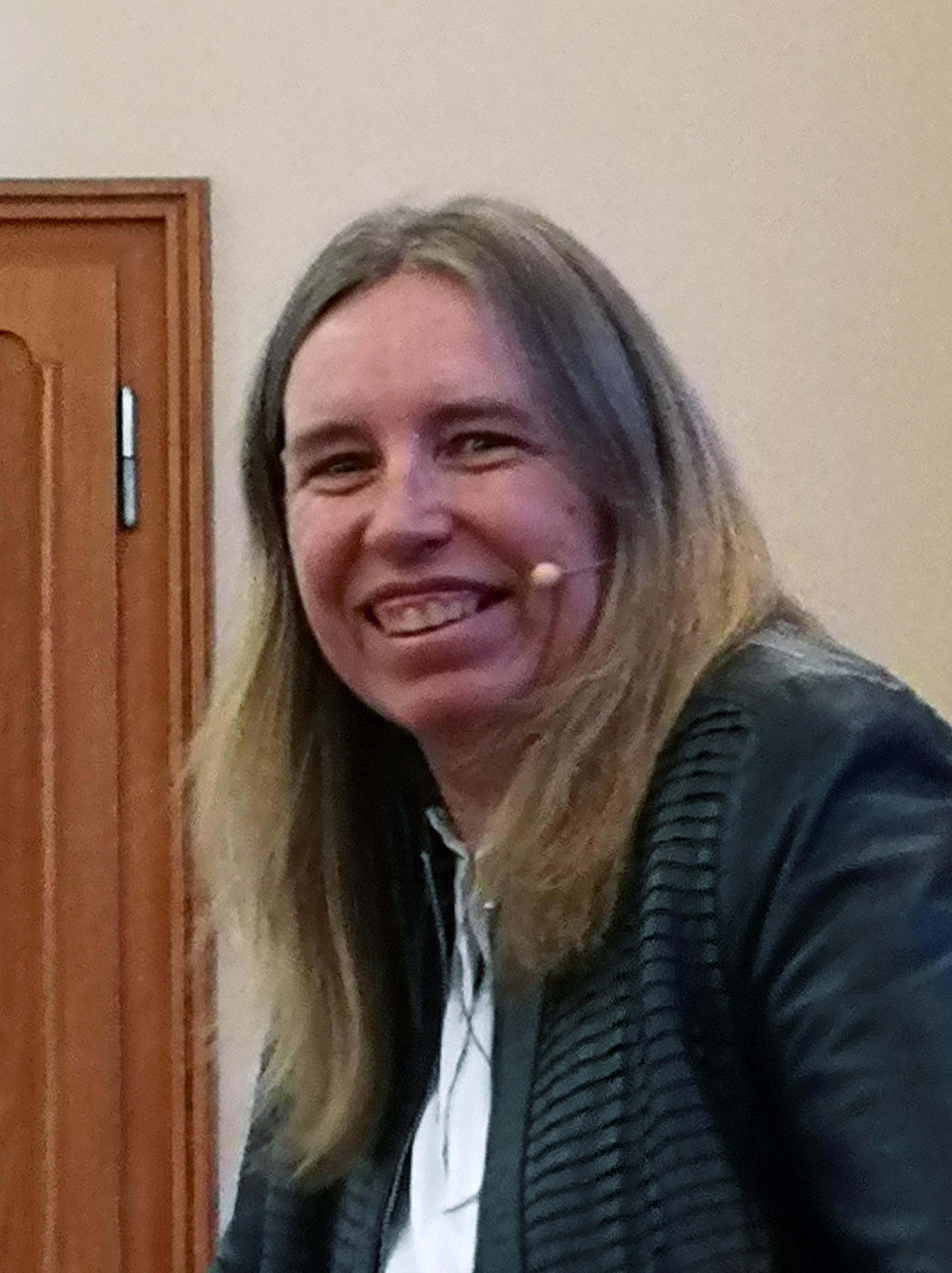 Anja Feldmann (Leopoldina lecture in Halle (Saale), Germany)